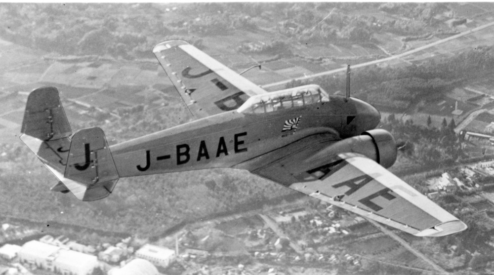 Asahi Shimbun newspaper's long-range record-breaking Mitsubishi Ohtori (demilitarized Ki-2)